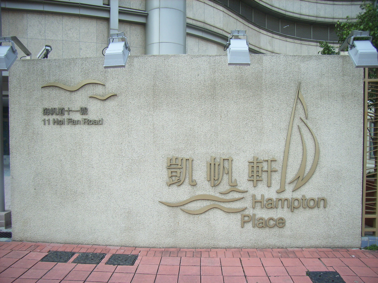 凱帆軒（Hampton Place） 是zh:香港zh:西九龍zh:奧運站的一個私人屋苑. Photo by User:OLAMB